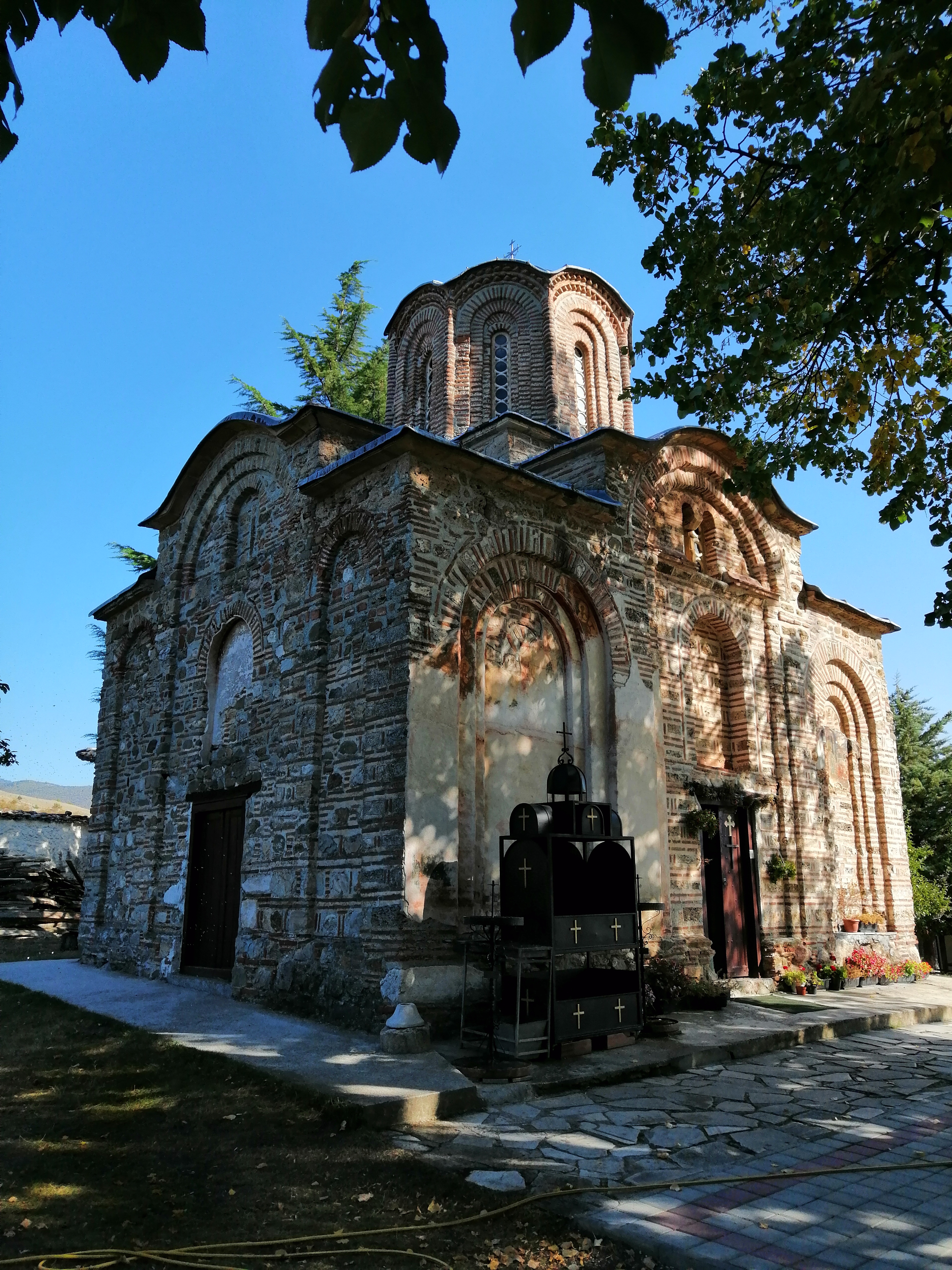 View of the St. Nicetas Church in the village Banjani